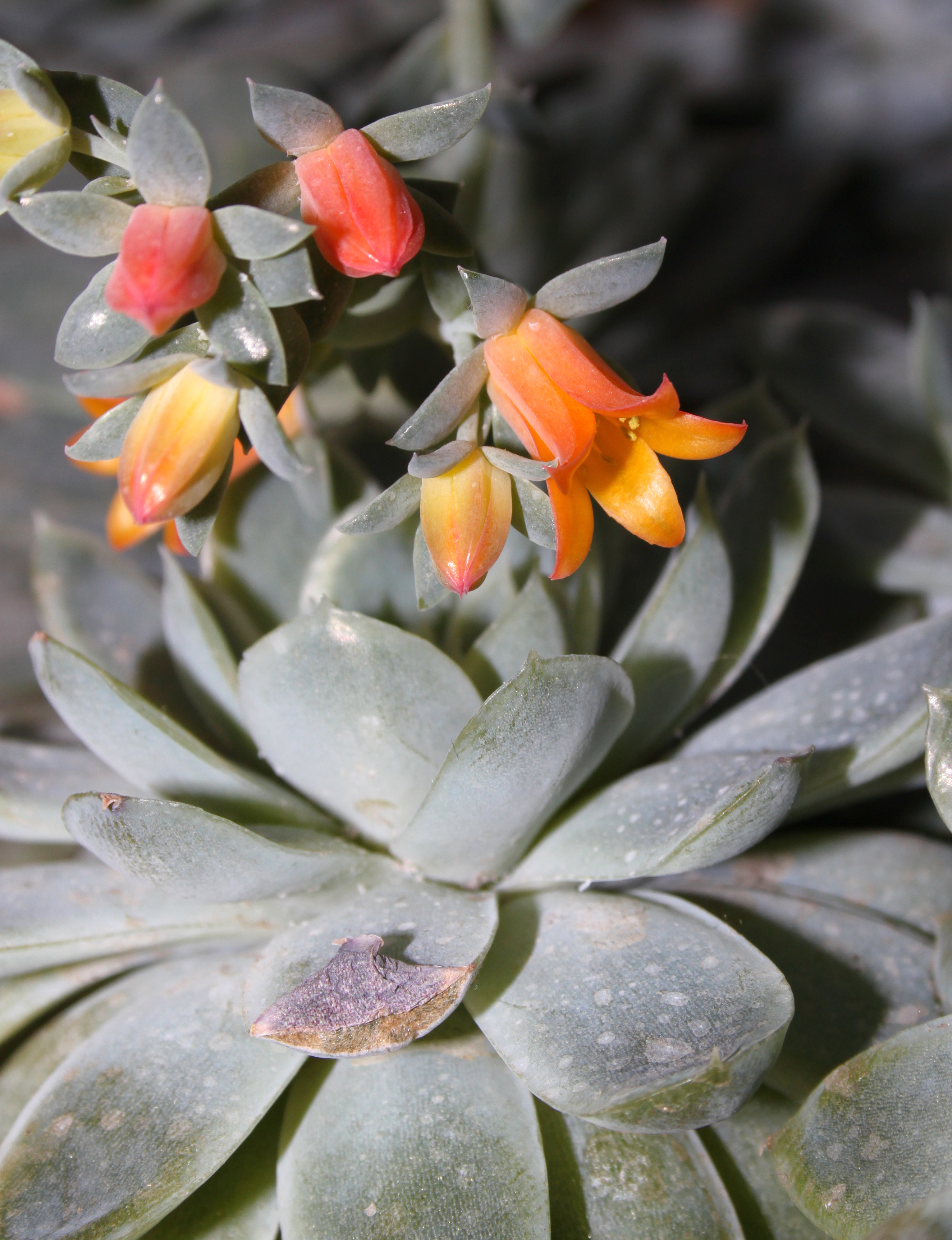 Echeveria elegans, Family: Crassulaceae